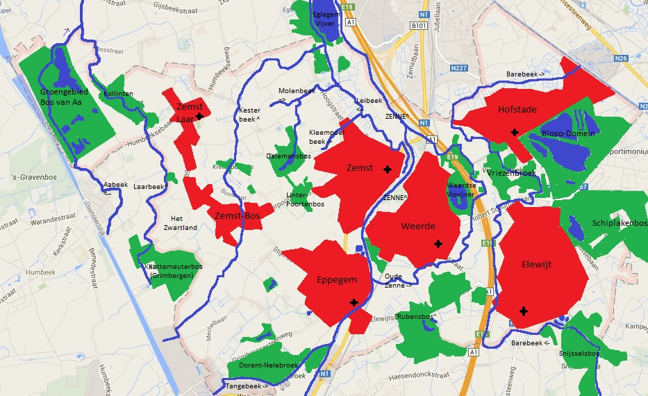 Simple map of Zemst